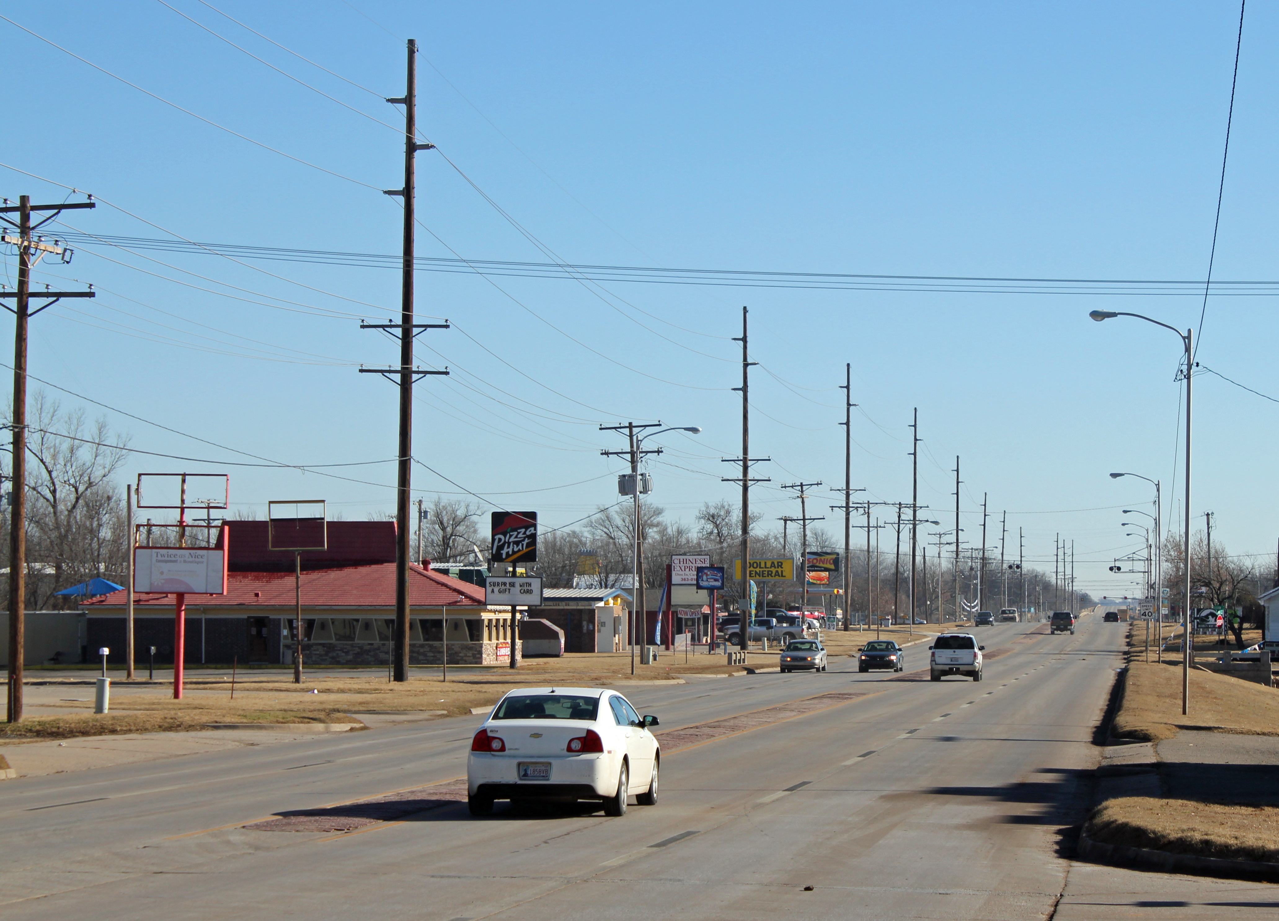 West Doolin Avenue in Blackwell, Oklahoma, looking east from just east of North 6th Street.